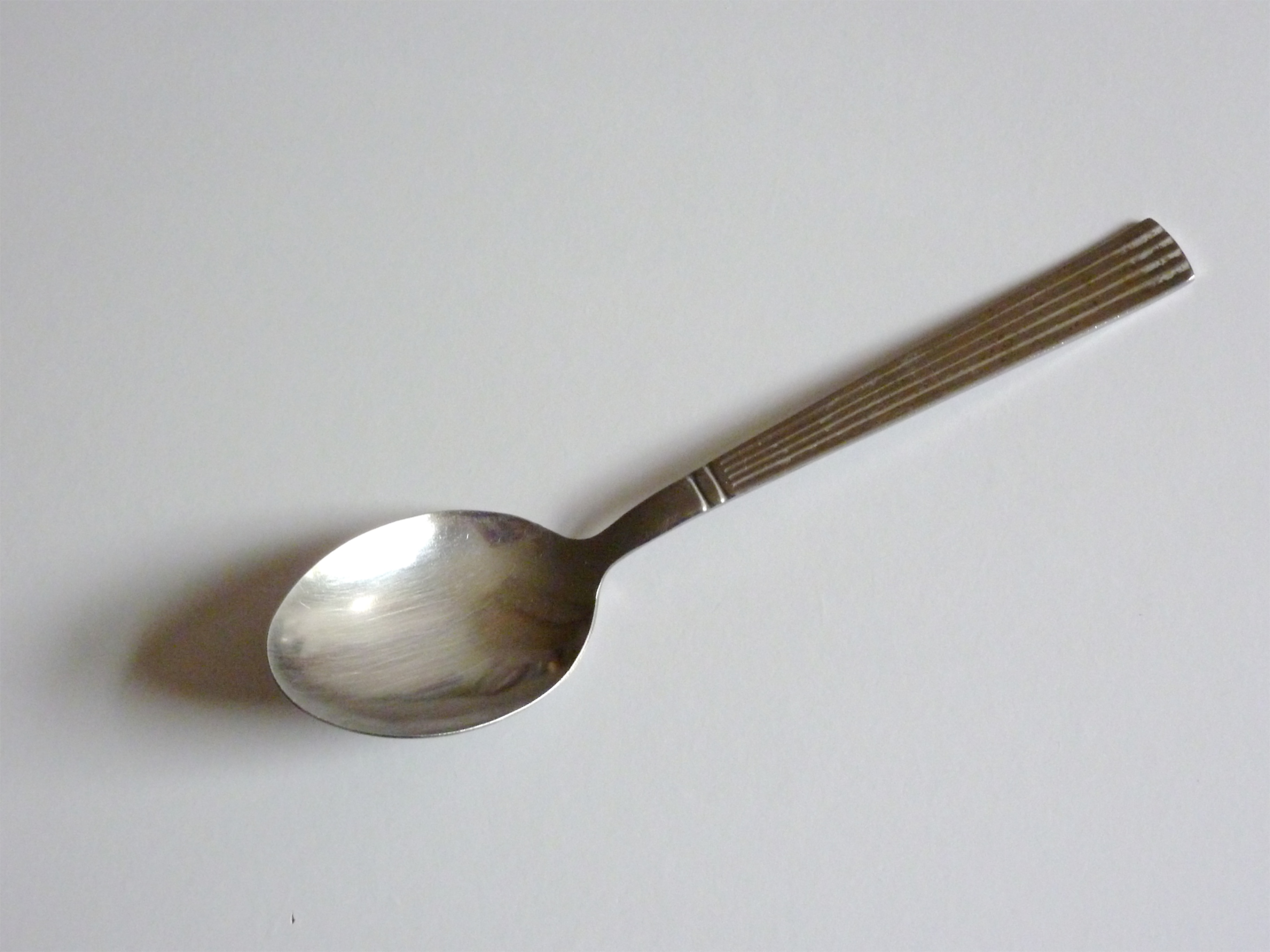 Tablespoon